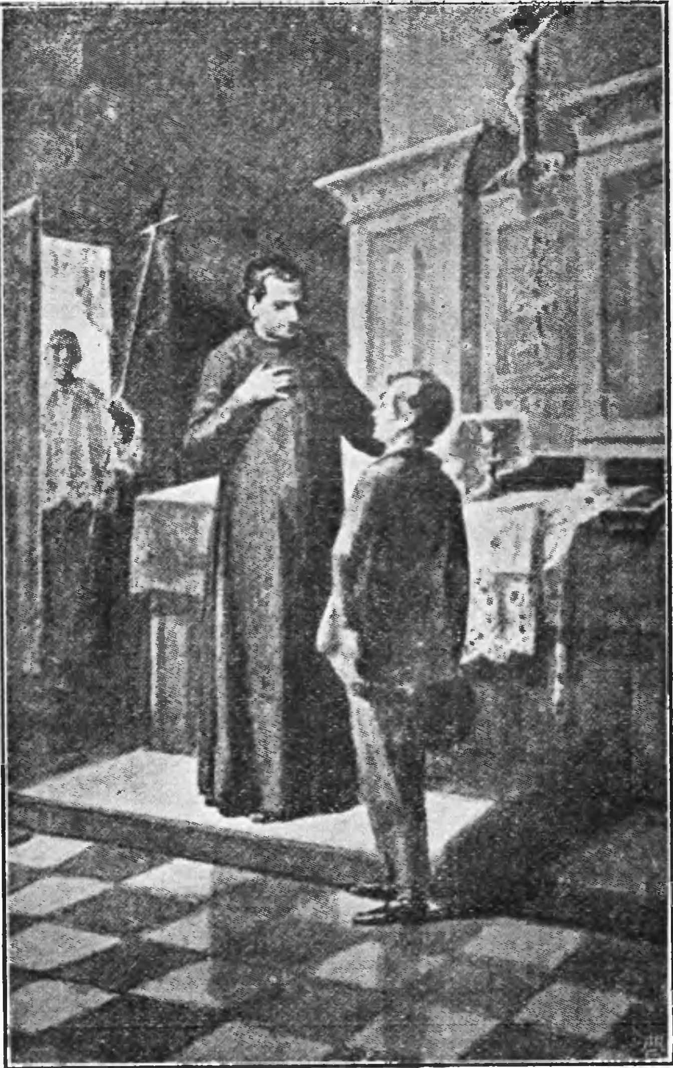 Image from The Venerable Don Bosco (1916) Don Bosco and Bartolomew Garelli on the Feast of the Immaculate Conception, December, 8, 1841